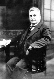 Azeez Khayat (Aziz Khayyat) 1931